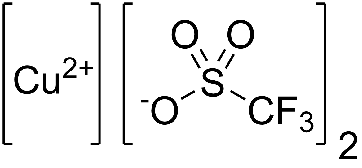 chemical structure of copper(II) triflate (copper triflate)